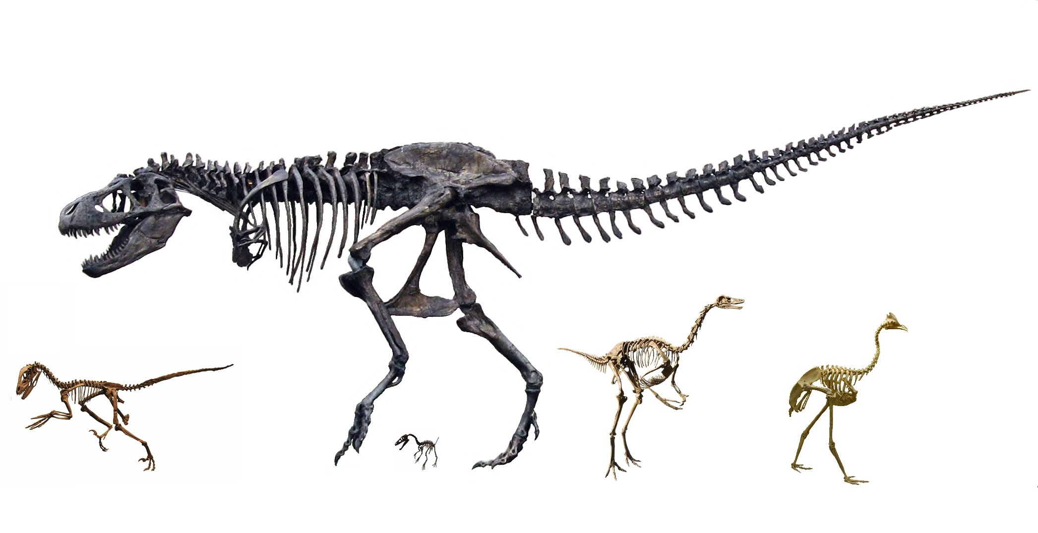 Assortment of various Coelurosaurs